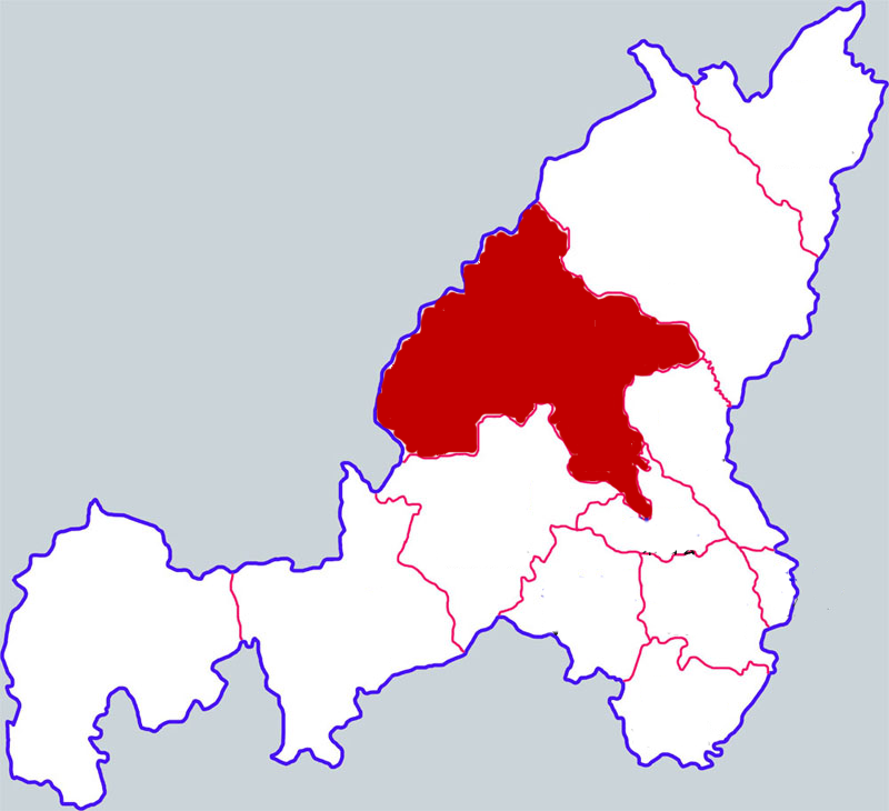 Location of Yuyang district in Yulin city, Shaanxi province, China